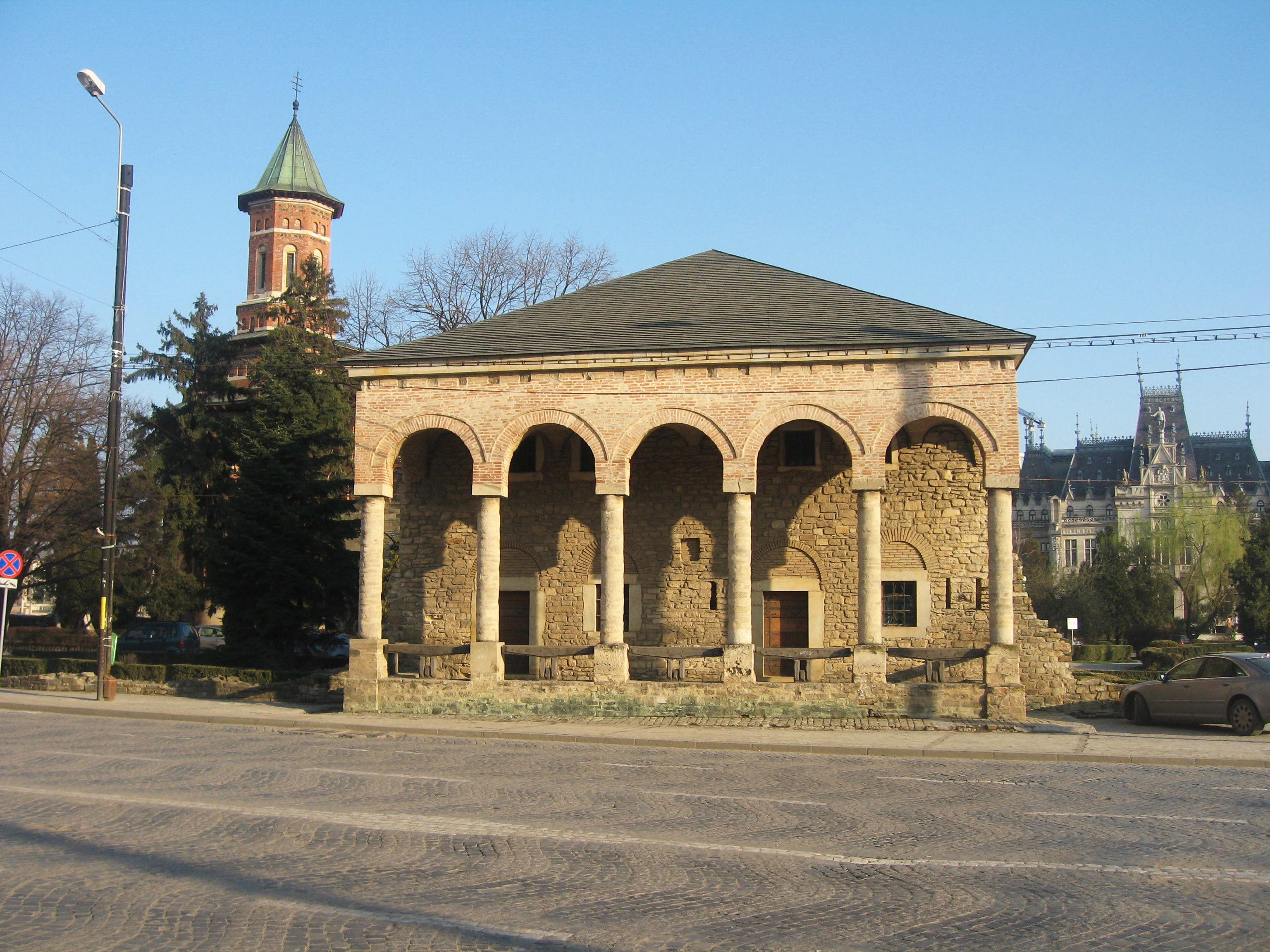 Biserica Sf. Nicolae Domnesc din Iași, România